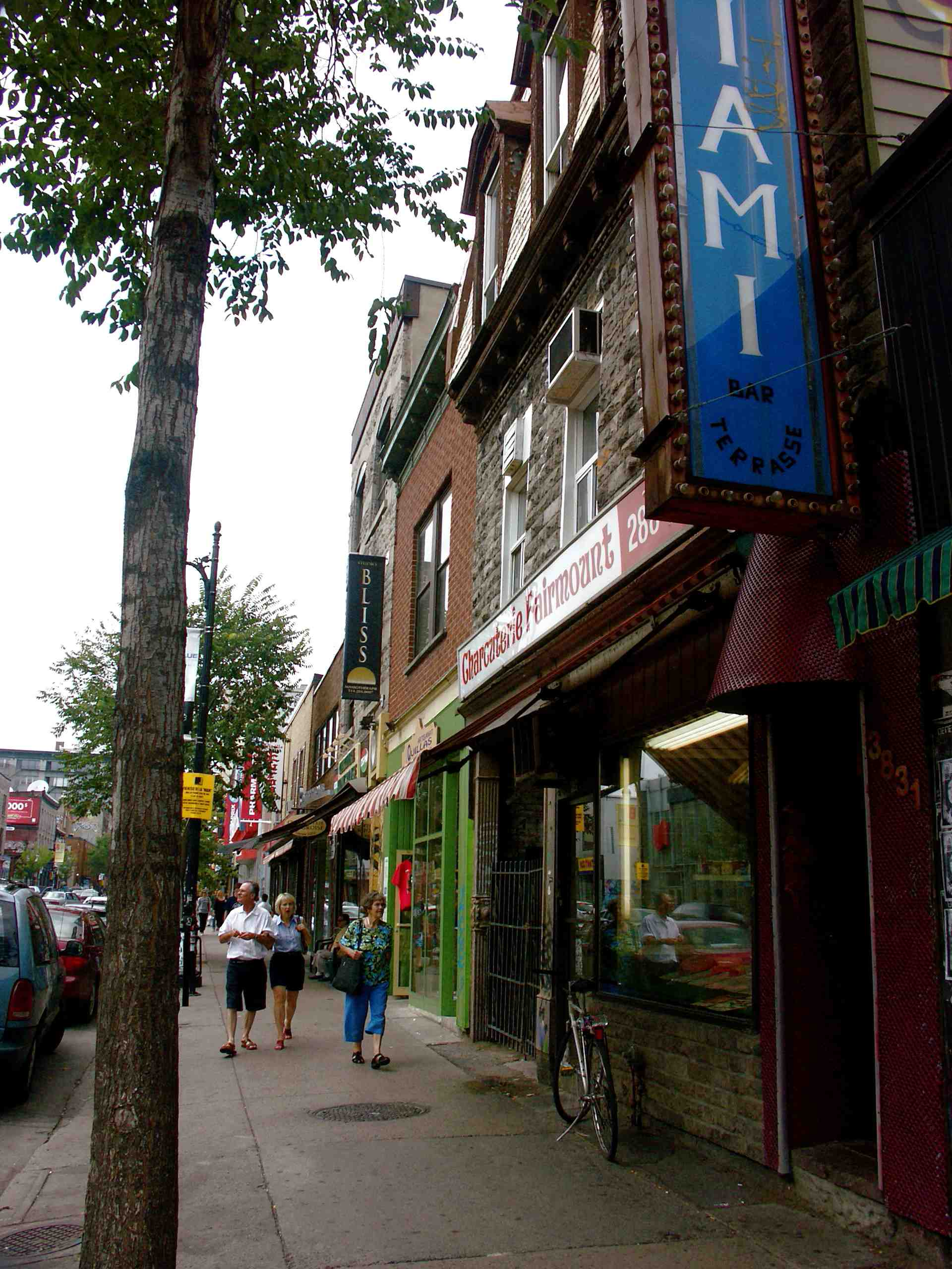 Saint-Laurent Boulevard, Montreal, between Prince-Arthur and Duluth.